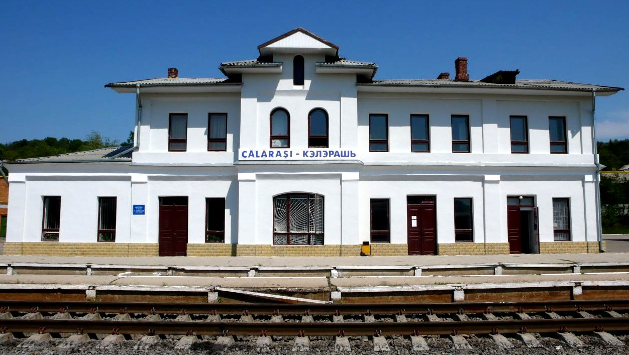 Railway terminal, Calarasi (Moldova)